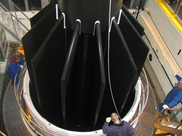 To provide additional thrust for the Ares I rocket, NASA engineers have designed a new 12-fin forward casting core. The 12-fin core is created by pouring propellant into an insulated and lined segment containing grain core tooling. The propellant mold is then inserted in to the solid rocket motor (SRM) casing. This creates open space in the center of the solid rocket which allows surface area for the propellant to burn.